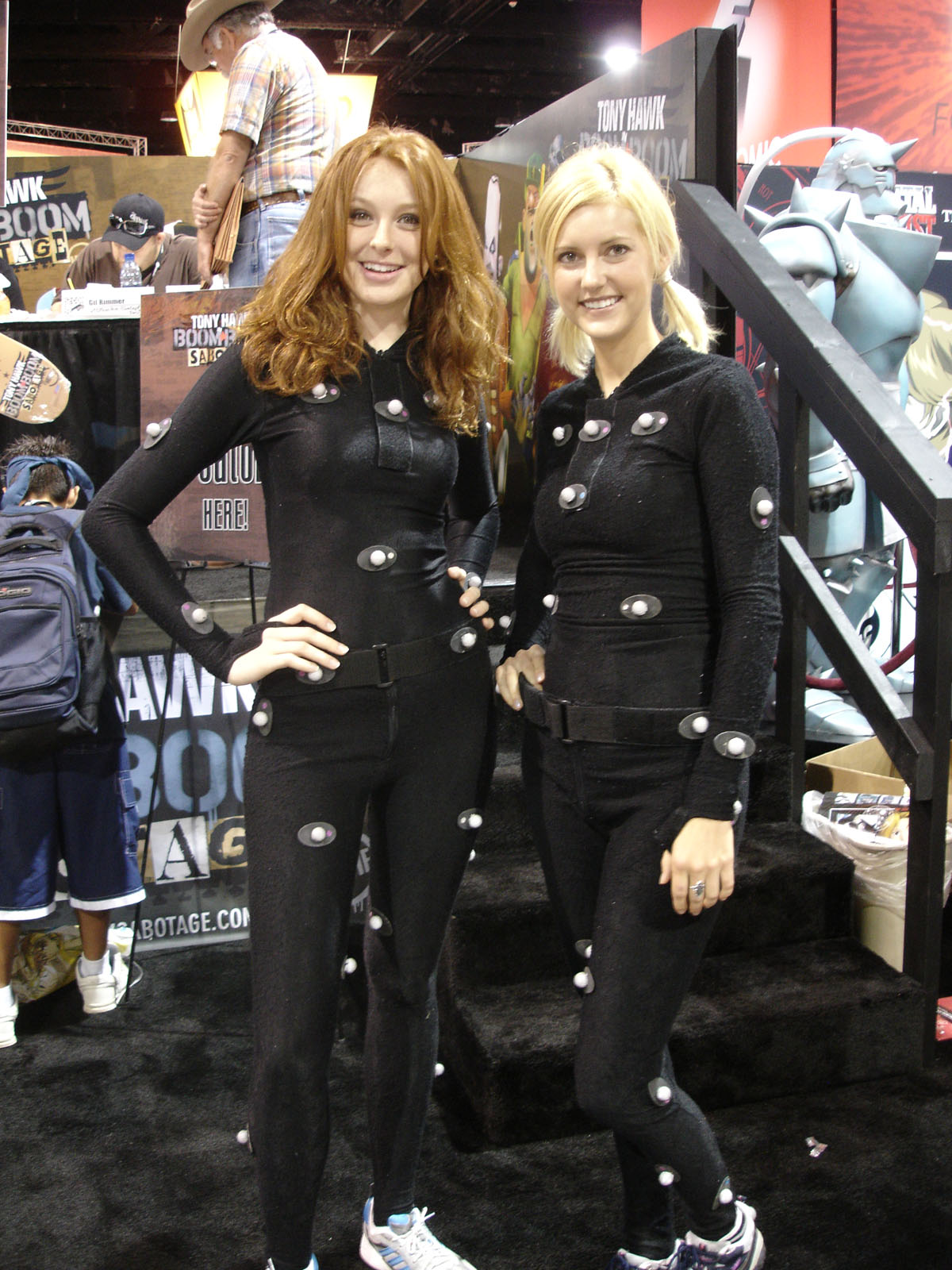 Comic-Con 2006 - motion capture girls